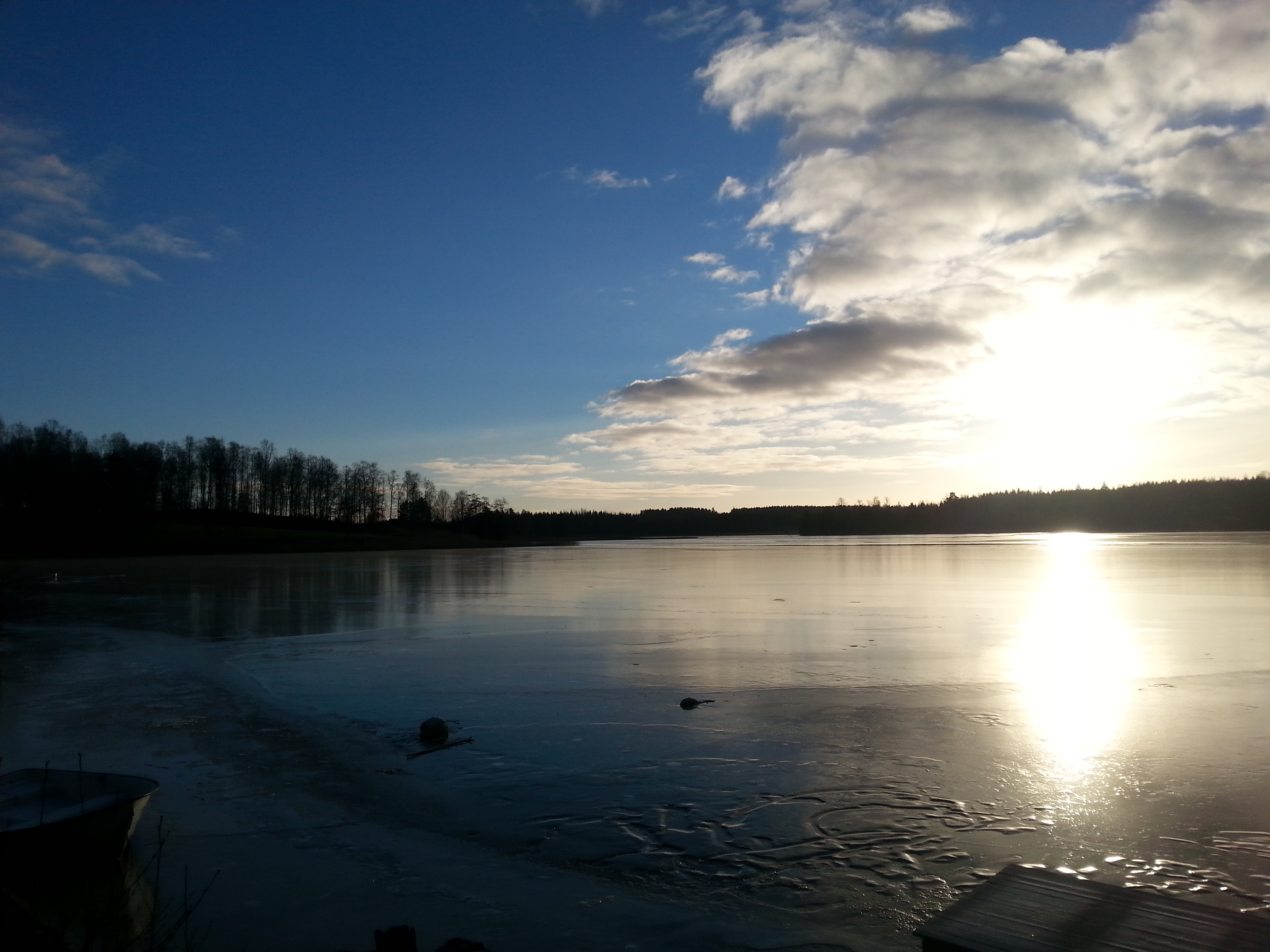 Stora aspen